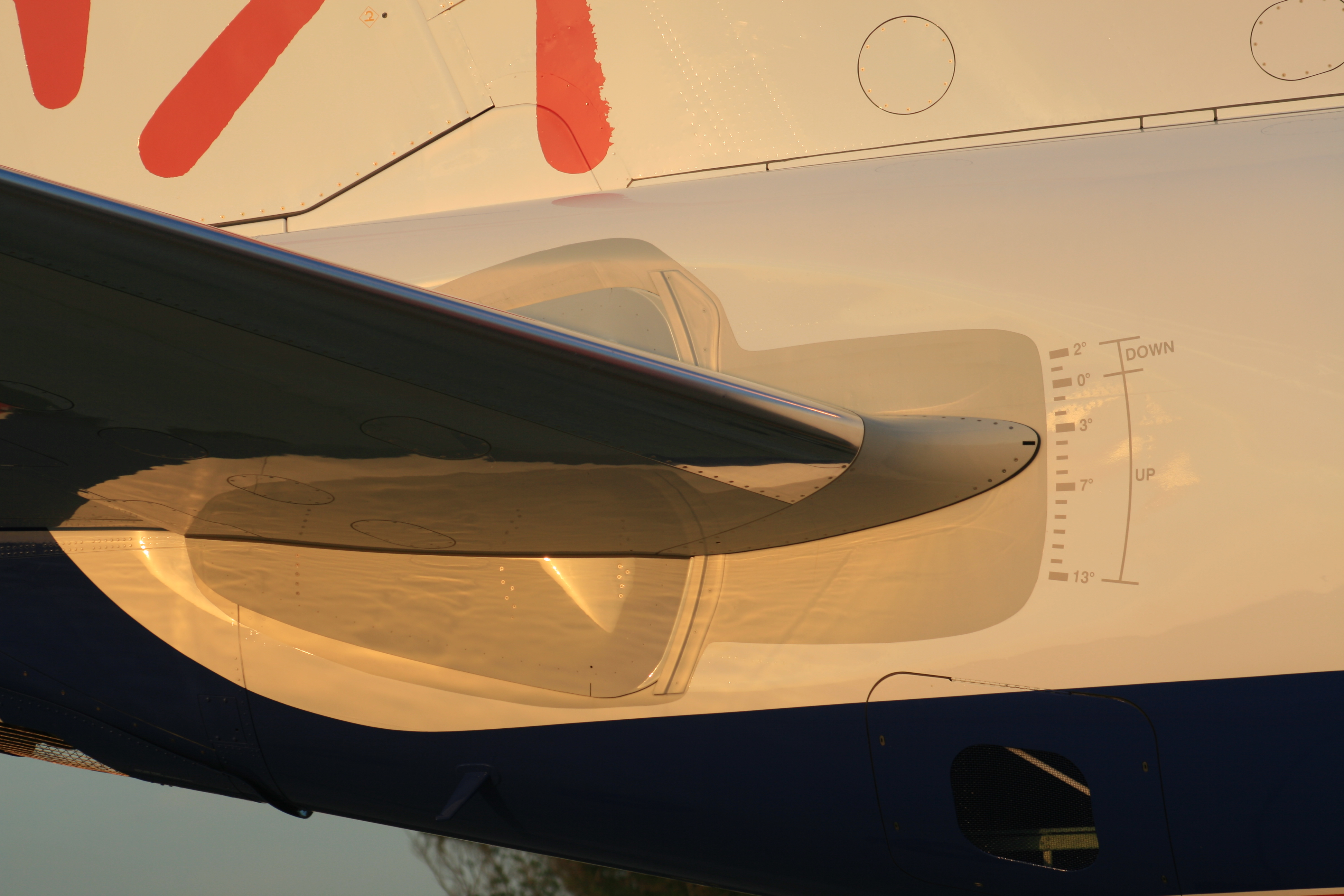 Photo of the root of the trimmable horizontal stabilizer on an Embraer ERJ-170. The markings UP and DOWN refer to "nose up" and "nose down", hence the orientation in reverse from what might be expected.